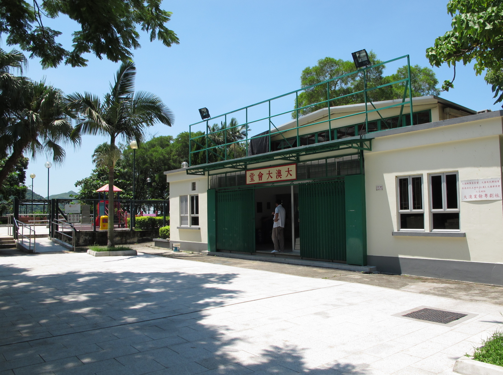 Tai O Town Hall